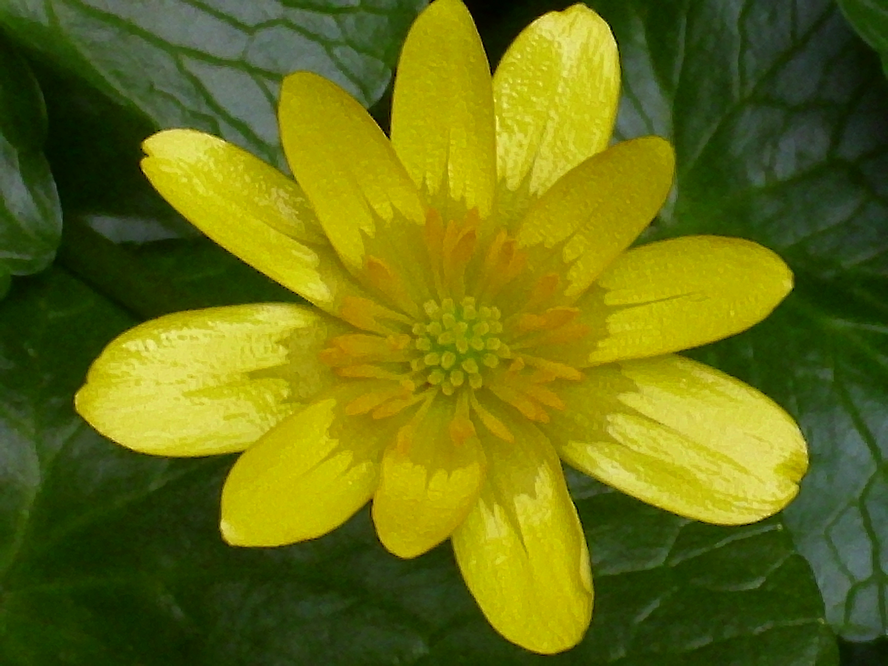 Ficaria verna Flower Closeup, in Solana del Pino, Sierra Madrona, Spain